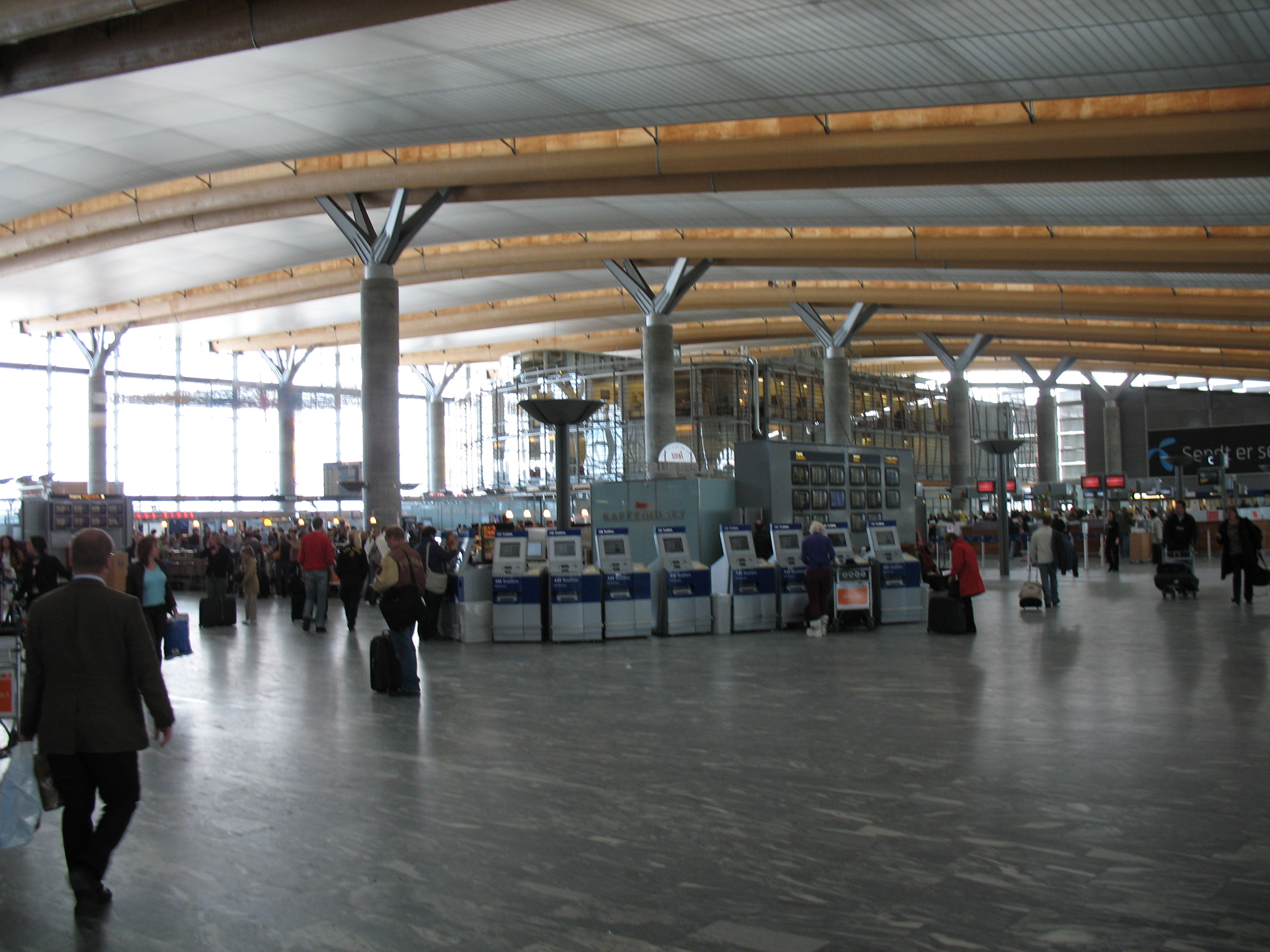 Oslo Airport, the check in-hall.